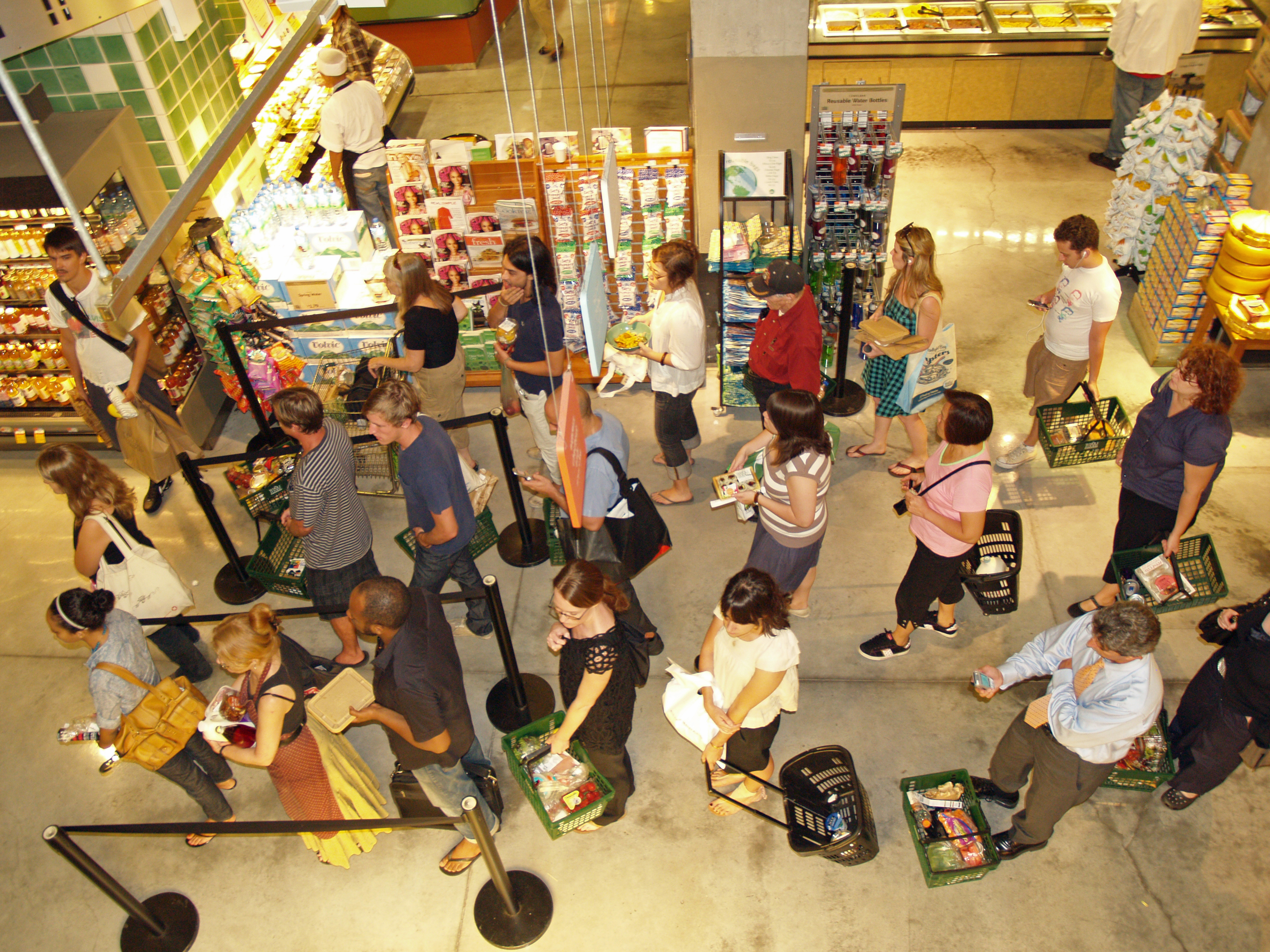 Customers waiting in line to check out at the Whole Foods on Houston Street in New York City's East Village.